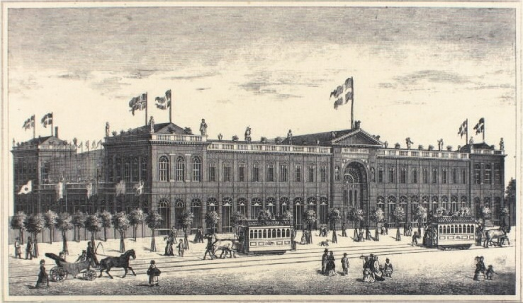 Industribygningen (The Building of Industry), headquarters of the Industrial Associal of Copenhagen. Erected 1872 in conjunction with the Nordic Exhibition, demolished 1976-77 and replaced by Industriens Hus.